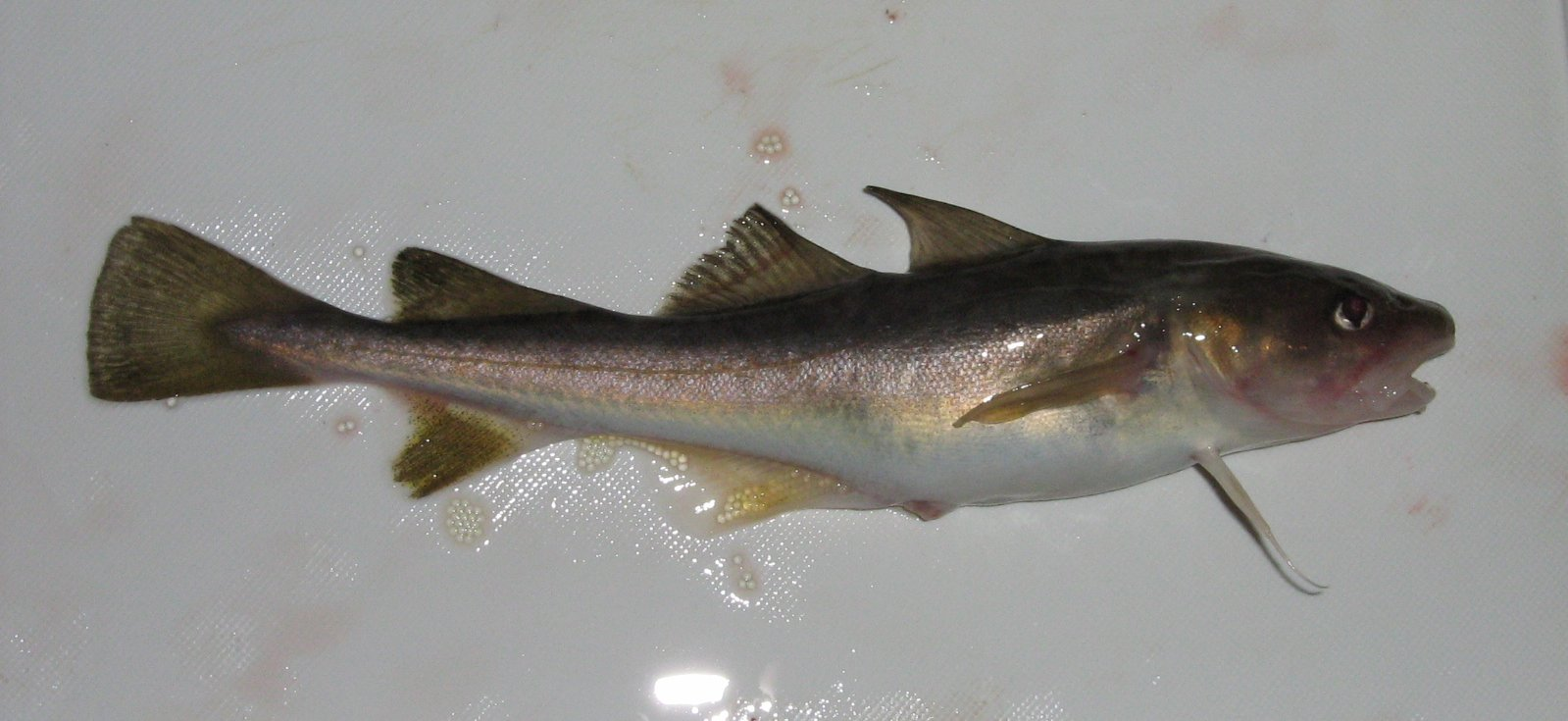 Crop of file in filename